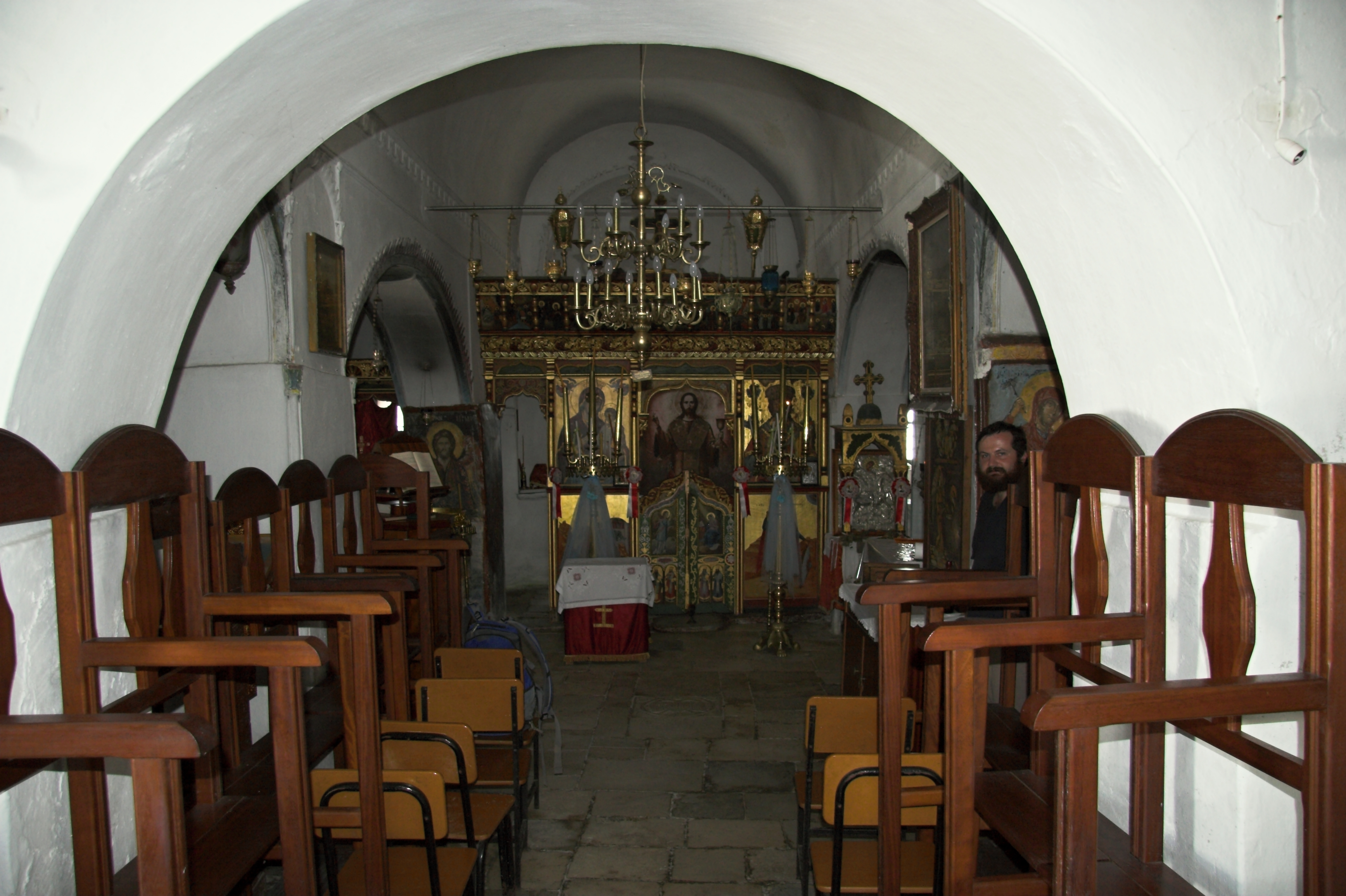 Moni Agios Georgios Varsamitis, the interior of the church.